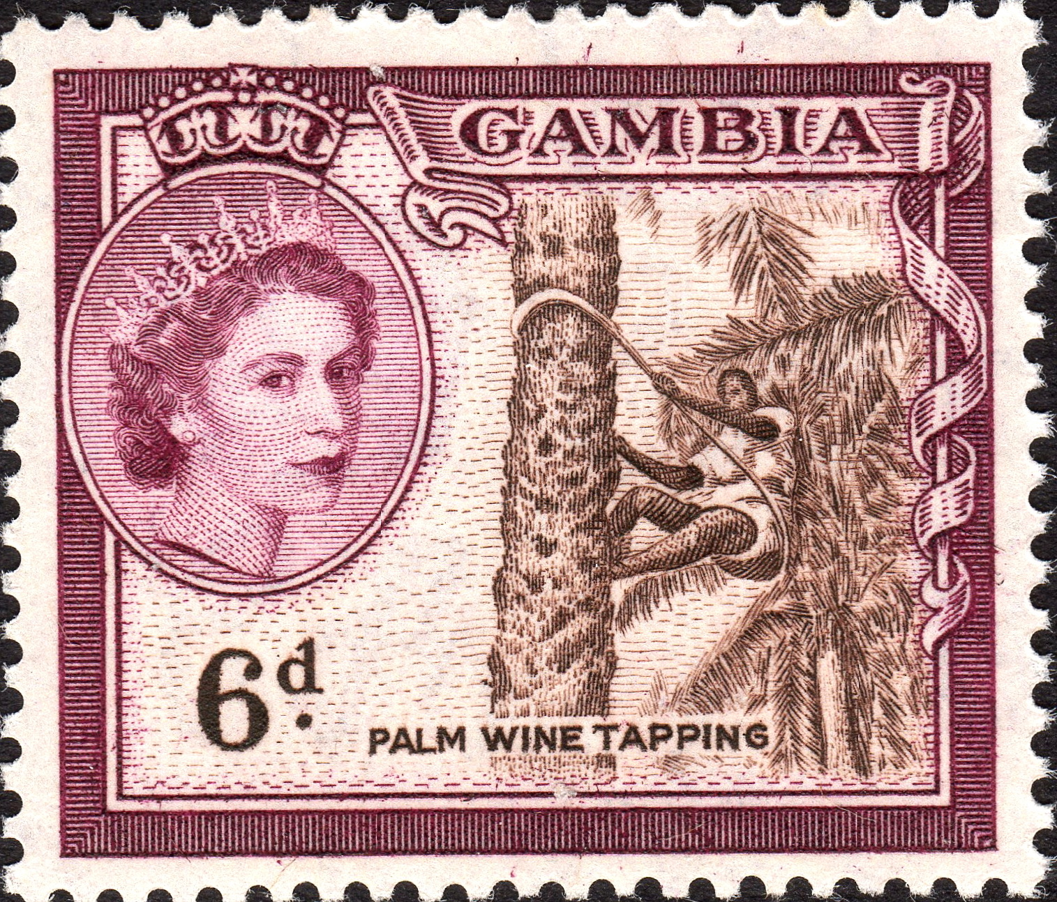 Gambia 1953 stamps.